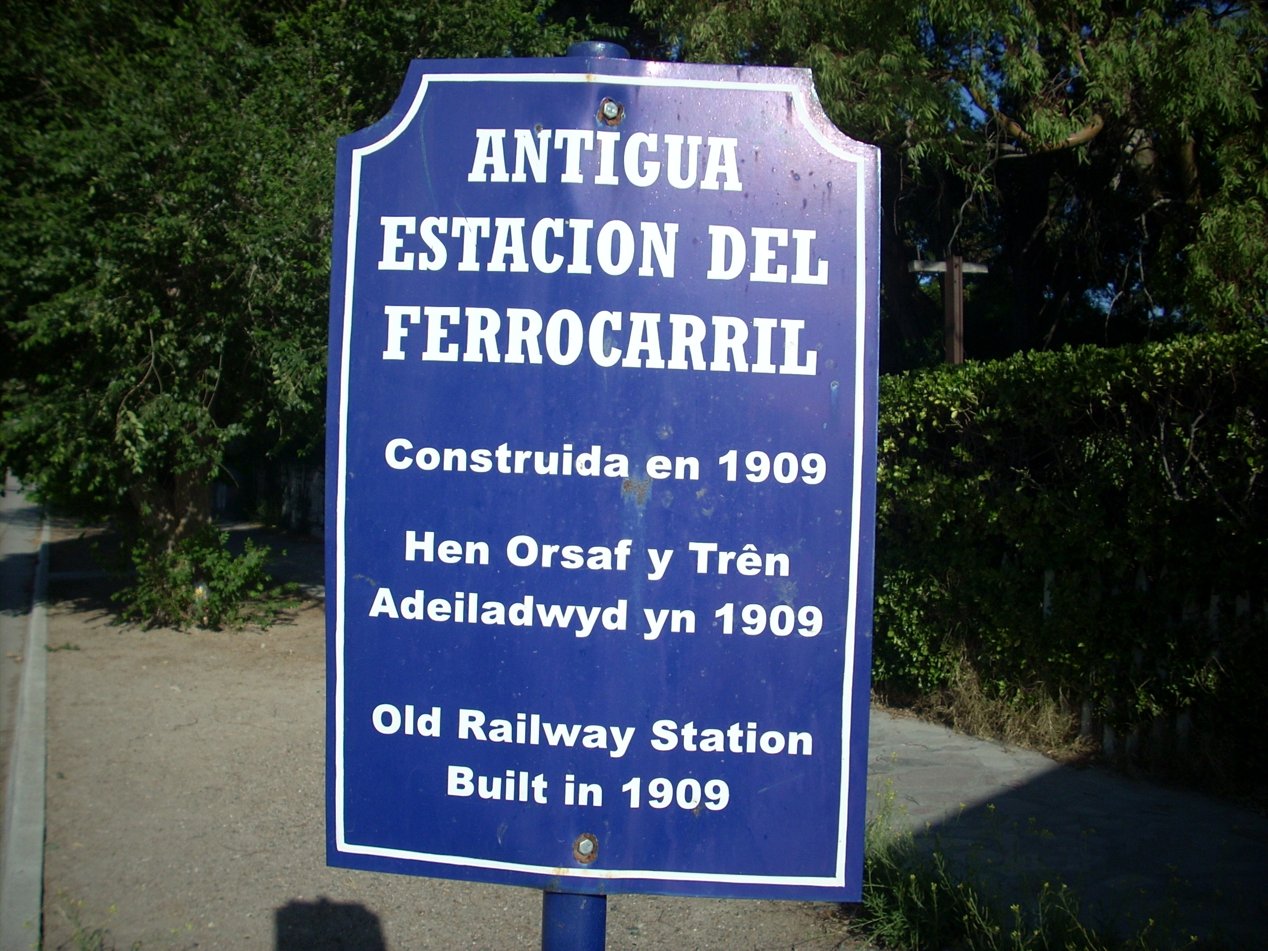 Sign at former Gaiman Station of the Central Chubut Railway